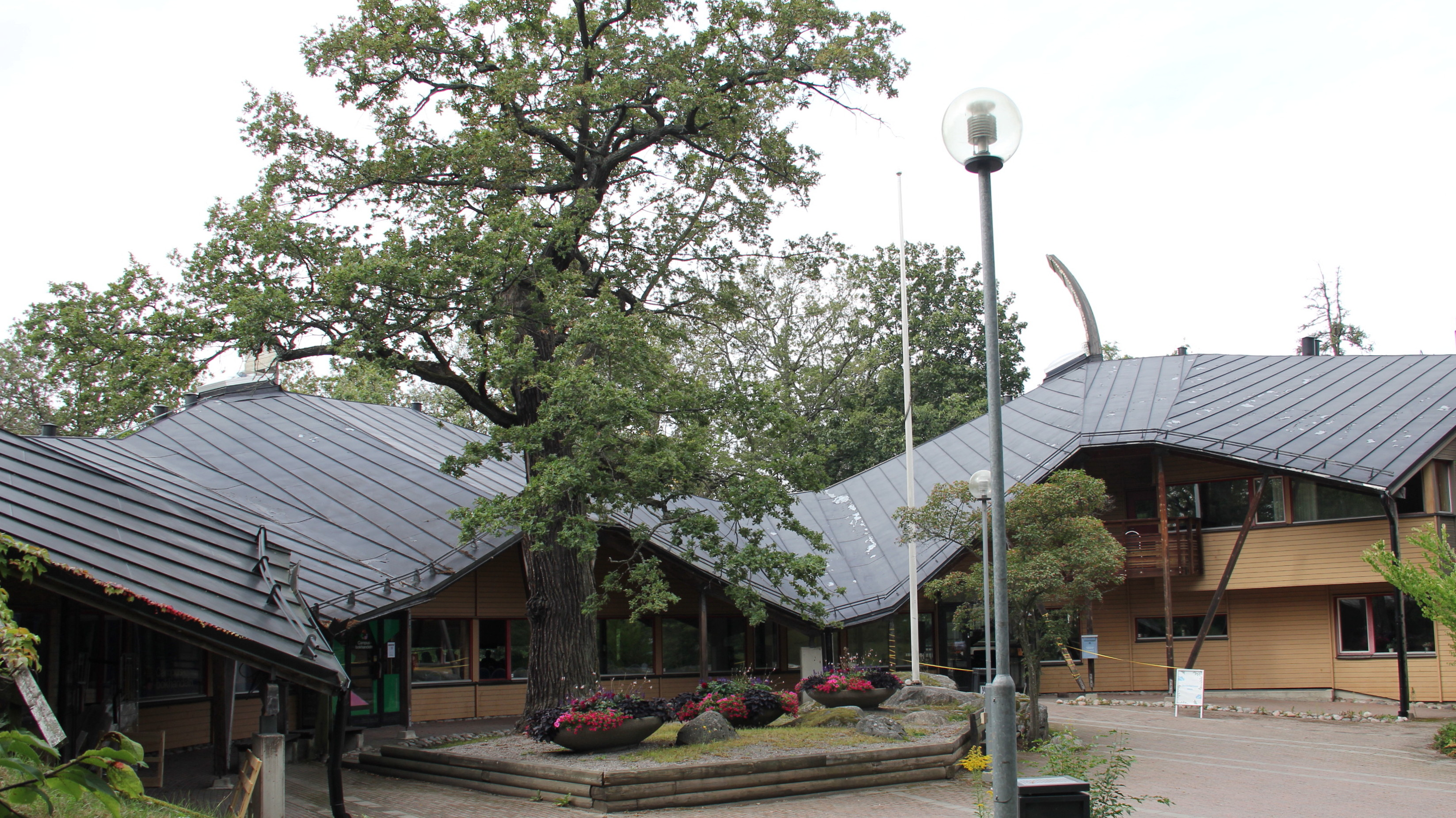 Juristernas hus, Stockholm university, Sweden. - Designed by architect Ralph Erskine, completed in 1991.